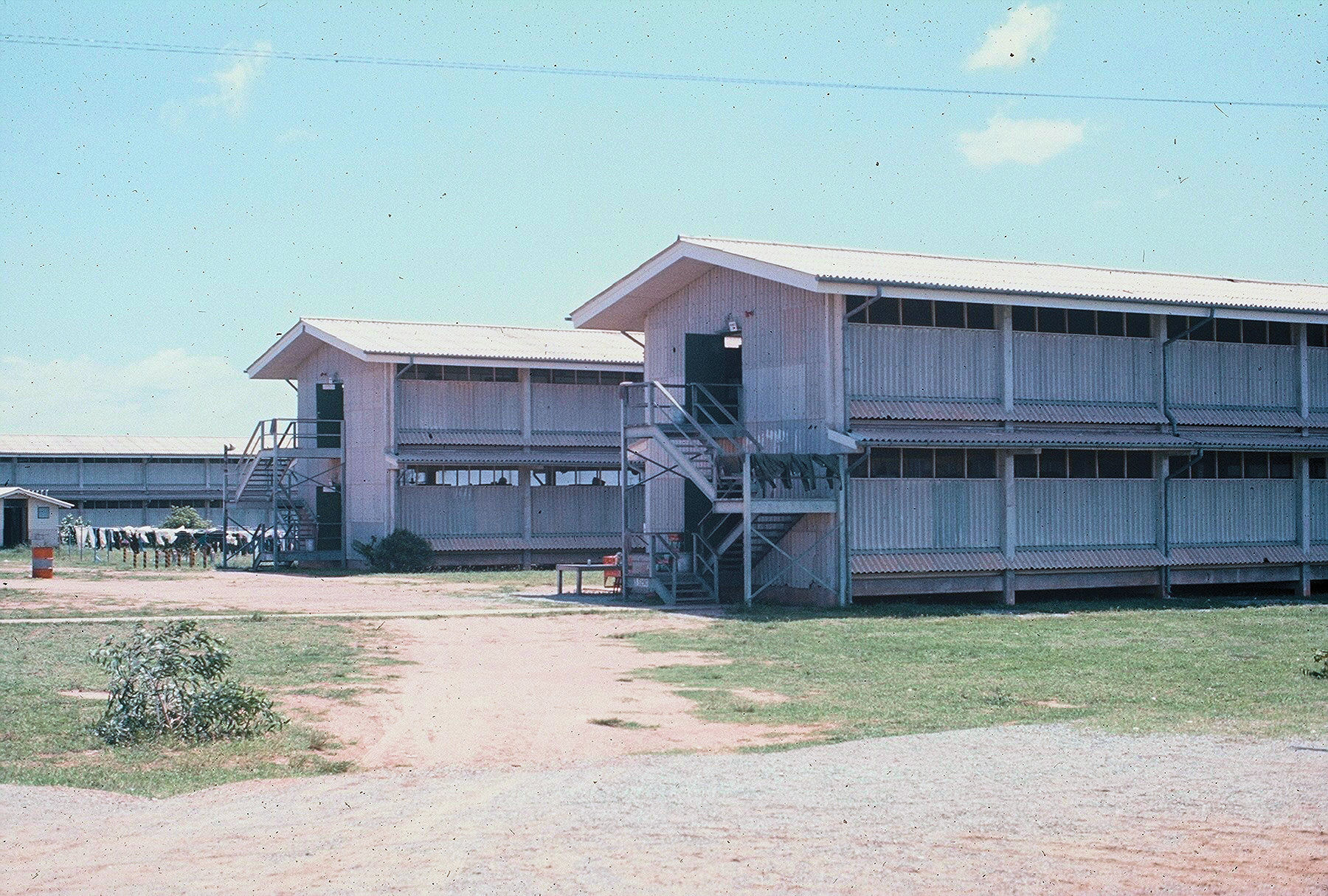 Camp Friendship - Barracks